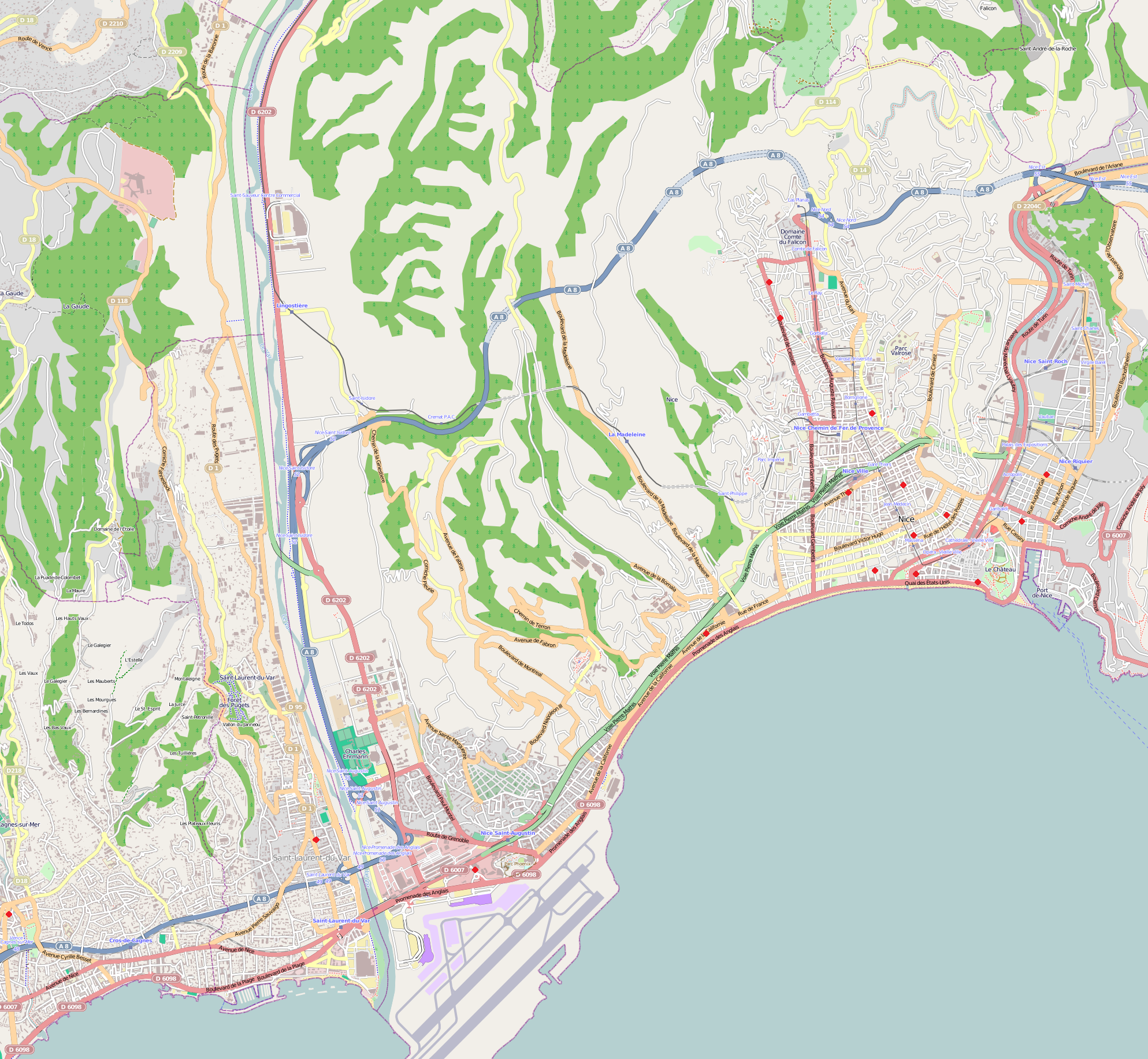 Map of the charging stations for Auto Bleu in NiceDansk: Kort over ladestationer for Auto Bleu i Nice